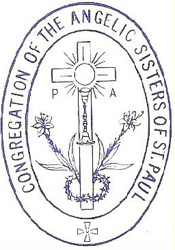 Emblem of the Sister Angelic of Saint Paul congregation, from its constitutions, printed 1901